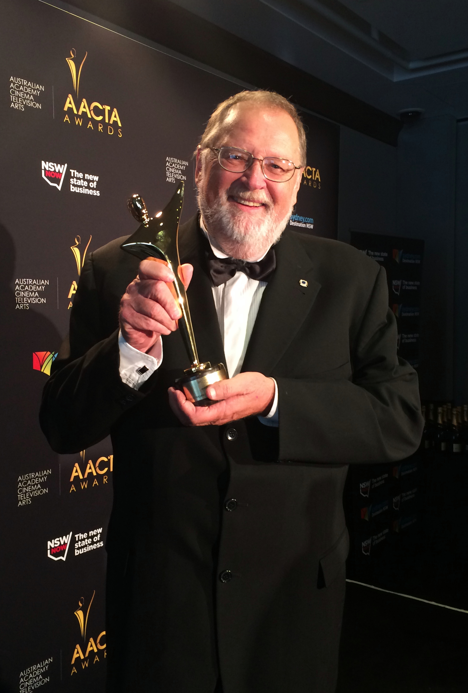 Ron Johanson receiving his AACTA Award, 2014